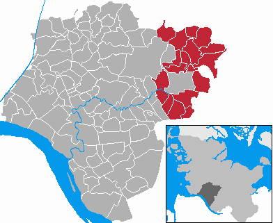 This map shows the area of the former Amt (county) Kellinghusen-Land in the Kreis (district) Steinburg, Schleswig-Holstein, Germany.